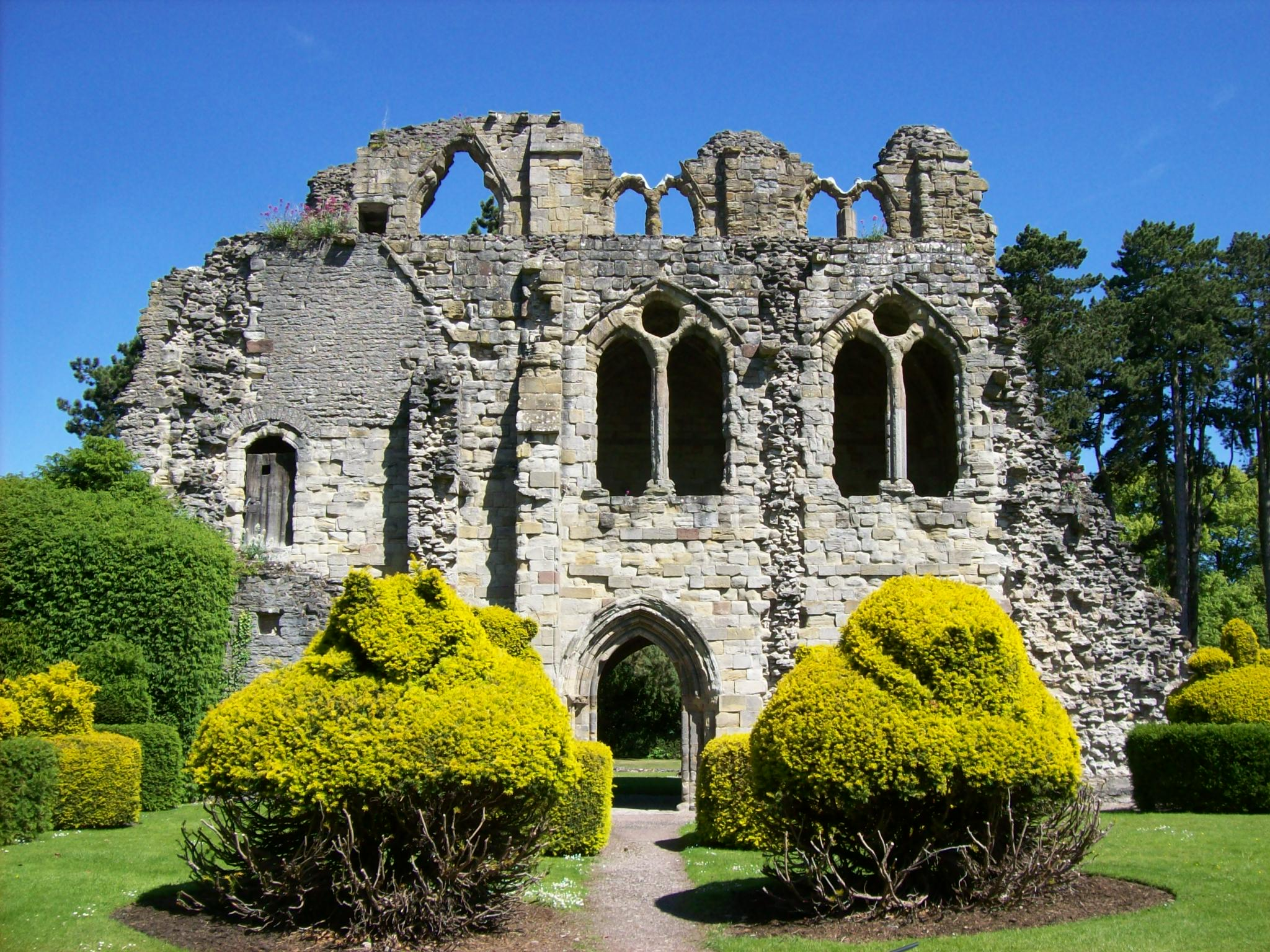 Cloister garden, with topiary, Wenlock Priory